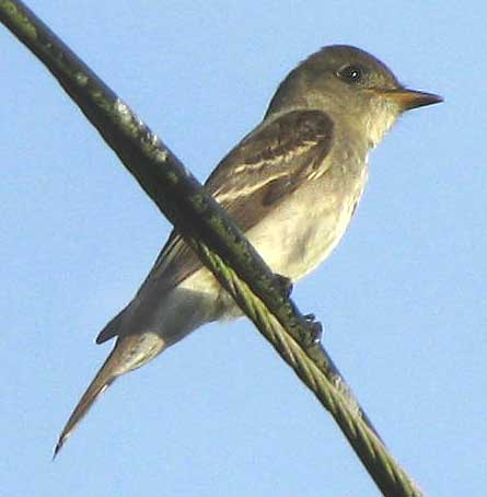 A peewee photographed in the Yucatán. It's been identified as an Eastern Peewee primarily because this species' vocals has been often heard, because its range fits and due to its relatively dark beak.